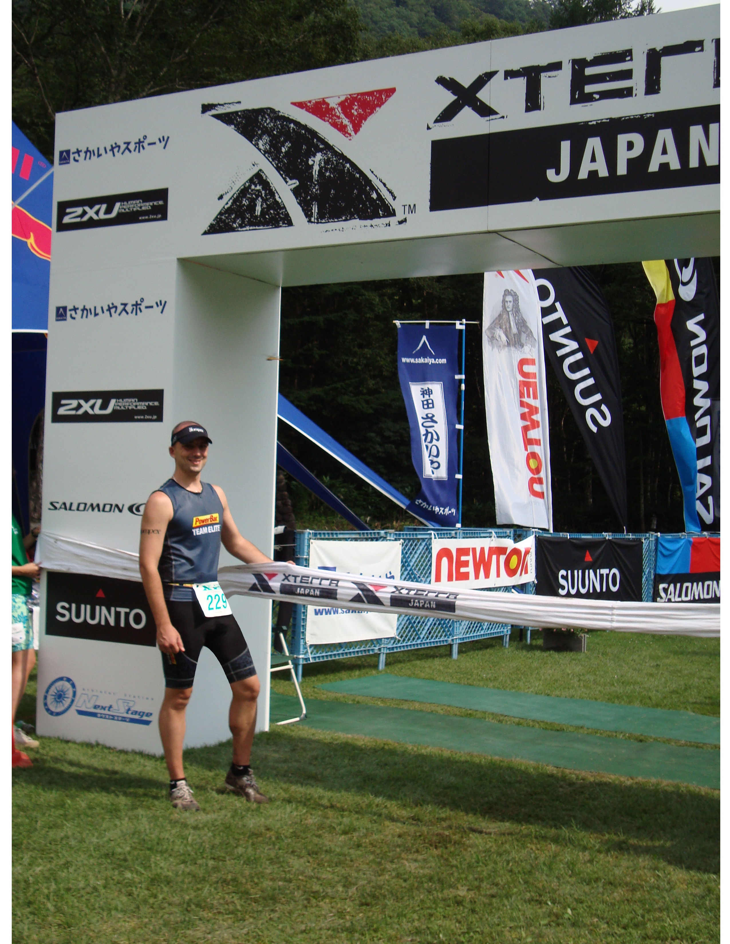 Richard Burgunder competing at the 2010 XTERRA Japan Championship at the Marunuma mountain resort in Japan's Gunma Prefecture.